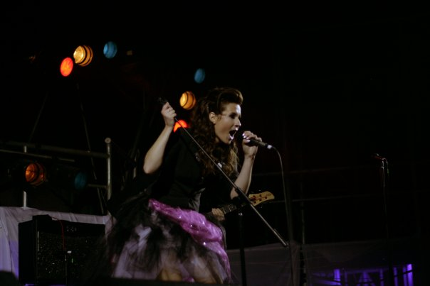 MY foto of group